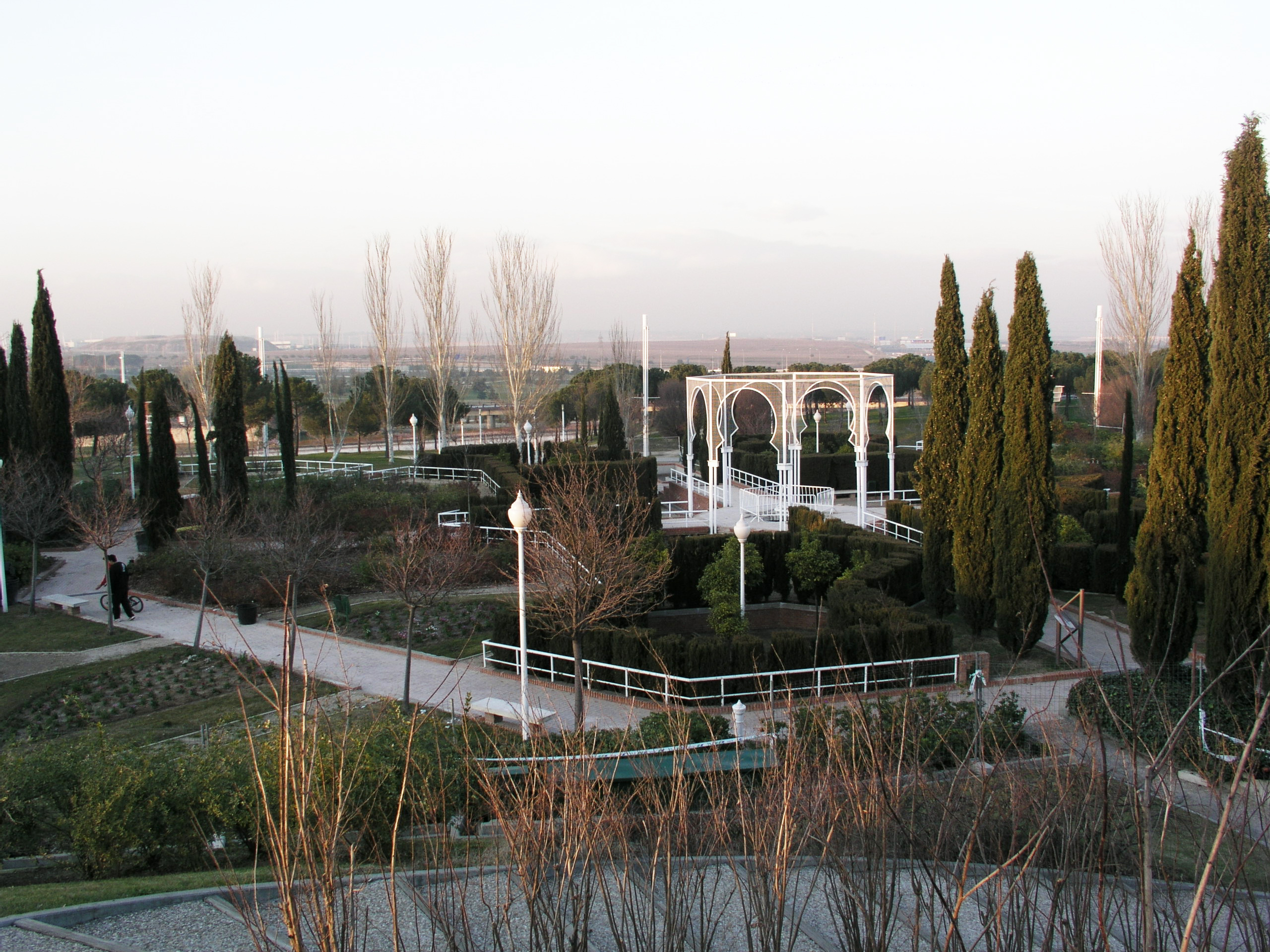 Parque Juan Carlos I, Madrid, Spain. Garden of the three cultures.